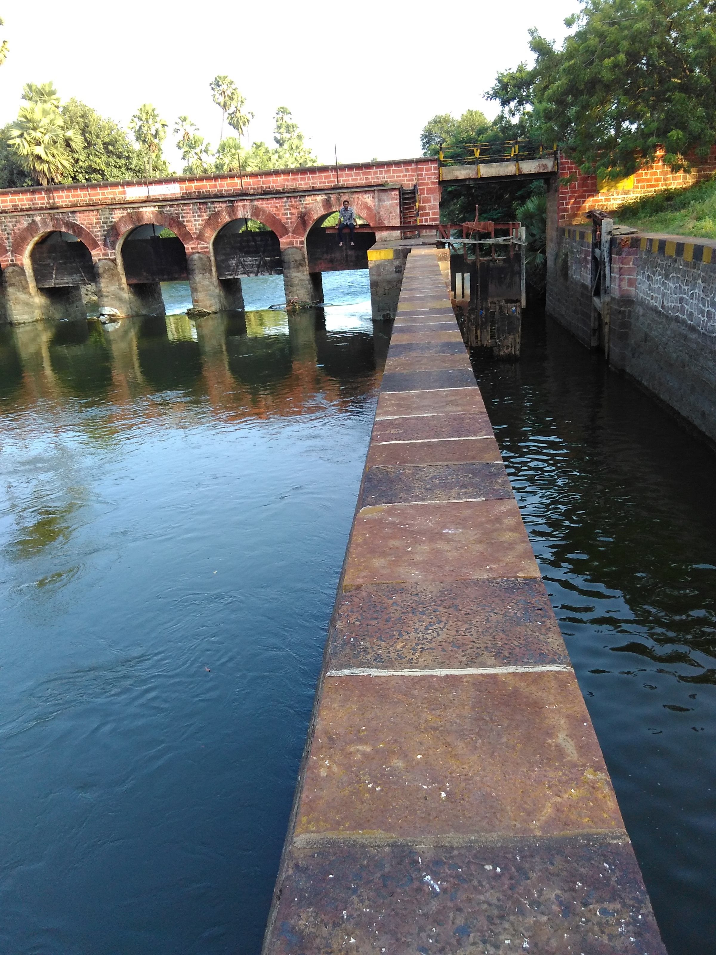 Piadaparru locks